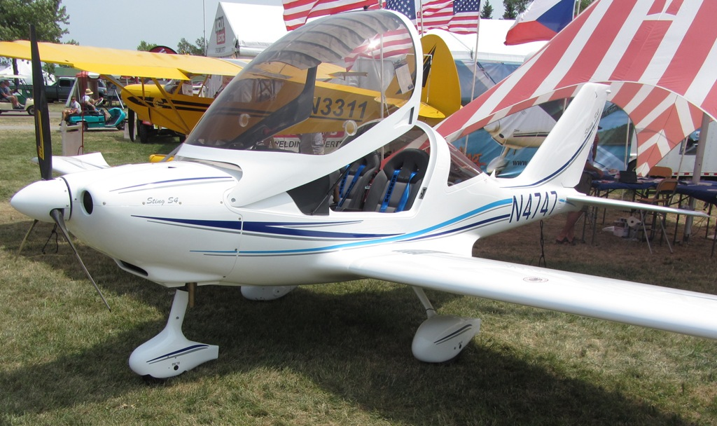 Sting S4